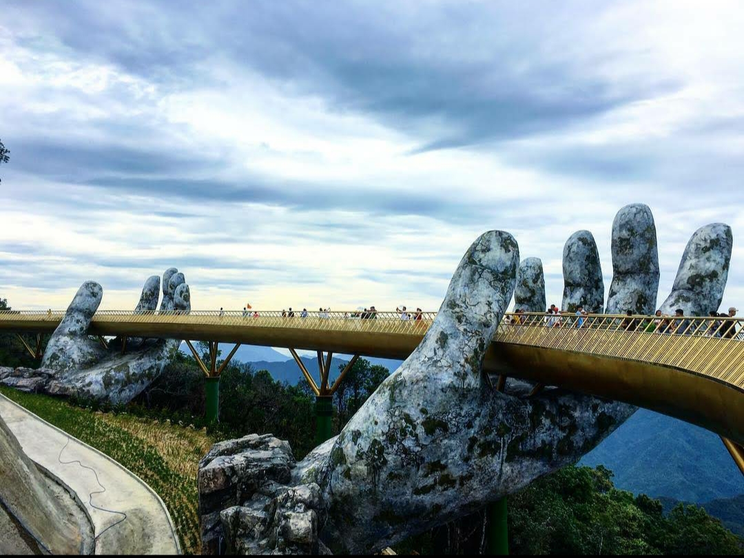 Đà Nẵng